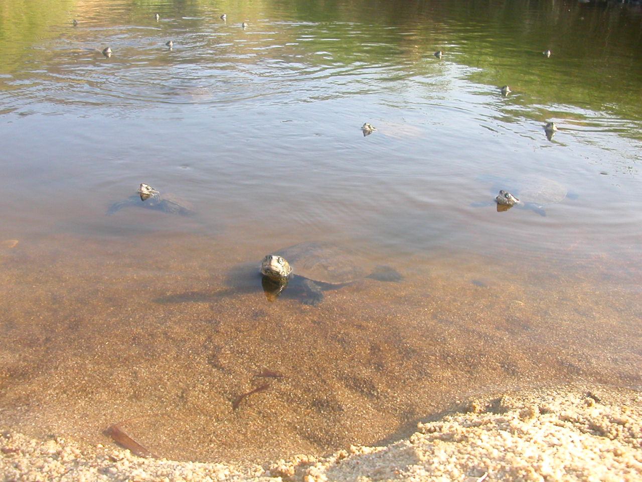 Livadi turtles